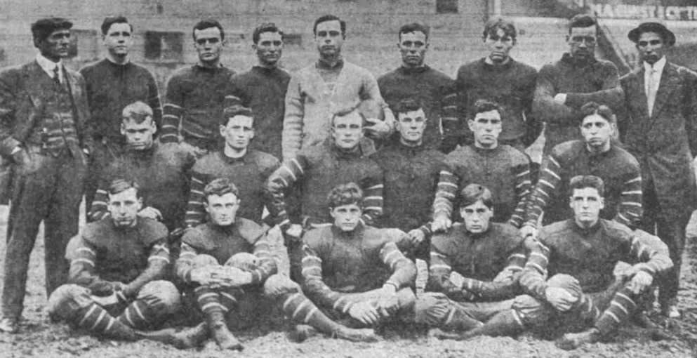 The University of Oregon Webfoots football team in 1908. Top row: Bill Hayward (trainer), Clark, Voigt, Sweek, Moullen (captain), Pinkham, Gillies, Robert Forbes (head coach), McEwen (manager); bottom row: McIntyre, Michael, Means, Hurd, Main, Kilty; bottom row: McKinley, Latourette, Dodson, Chandler, Hayes.